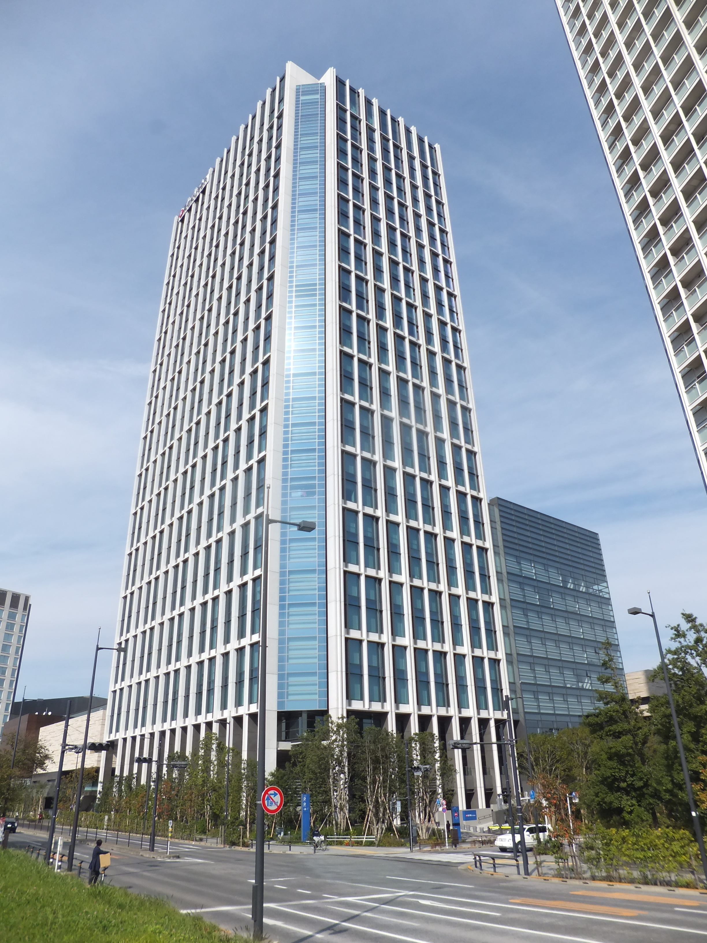 "Rakuten Crimson House" is the head office of the RAKUTEN Group